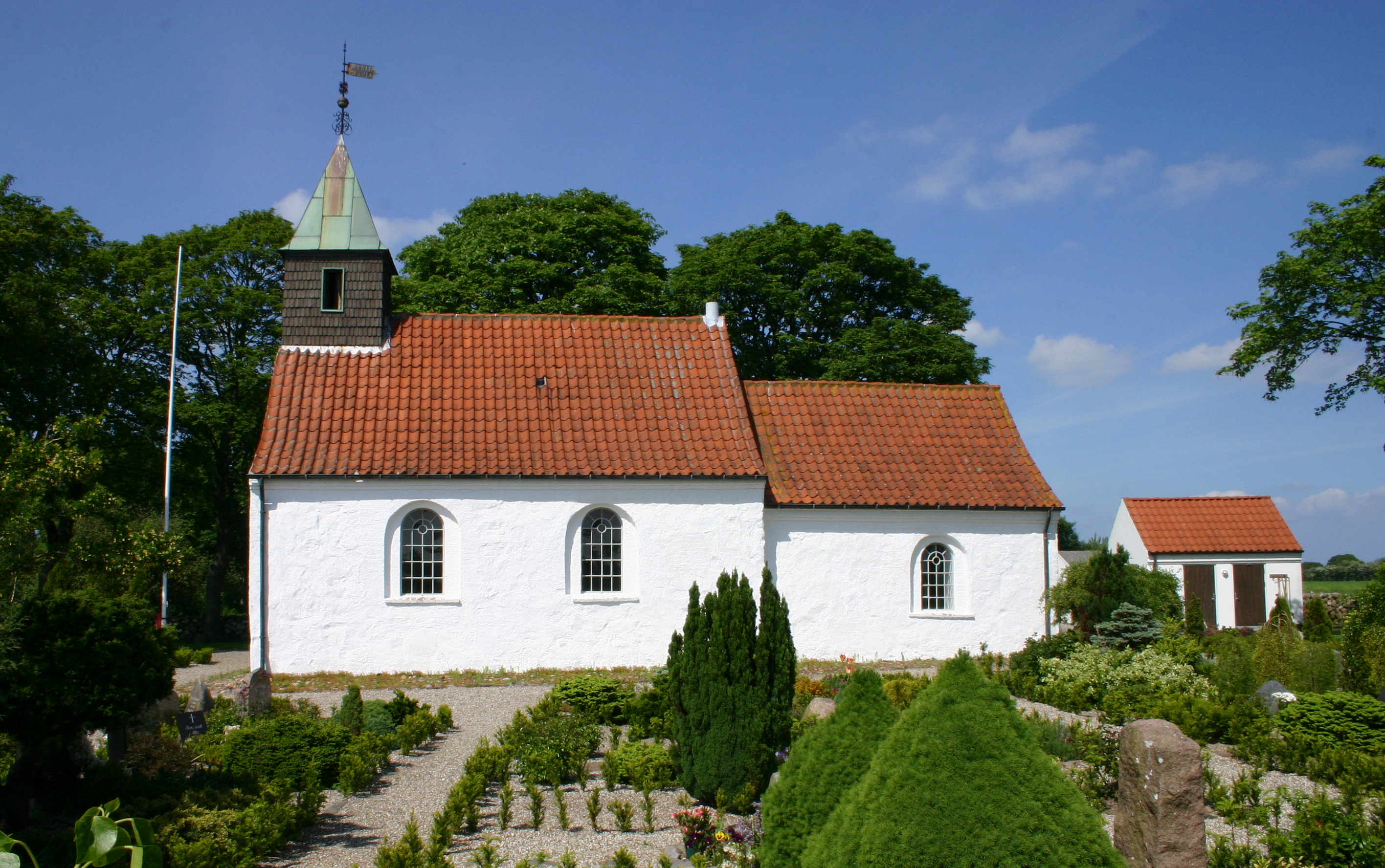 Hjarnø kirke is a little church on the island Hjarnø in Horsens fjord.Build 1500-1600.